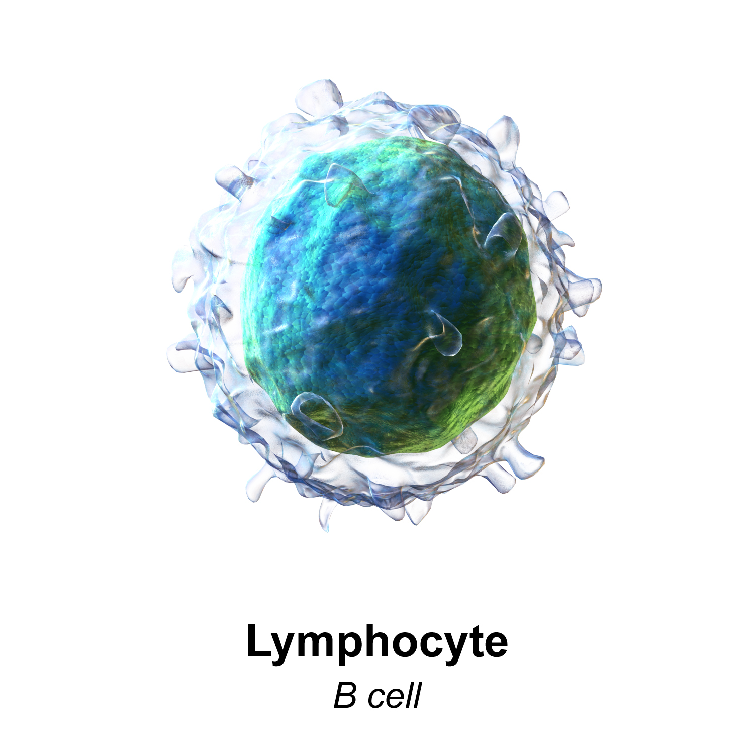 B cell. See a full animation of this medical topic.